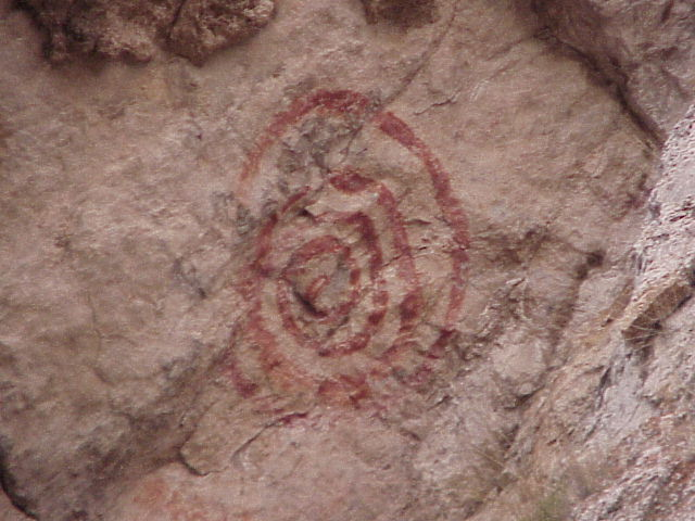 I took this picture of some ancient American Indian rock art near Mona, Utah. My grandparents, who lived in the area for almost 80 years, said they saw this when they were little.